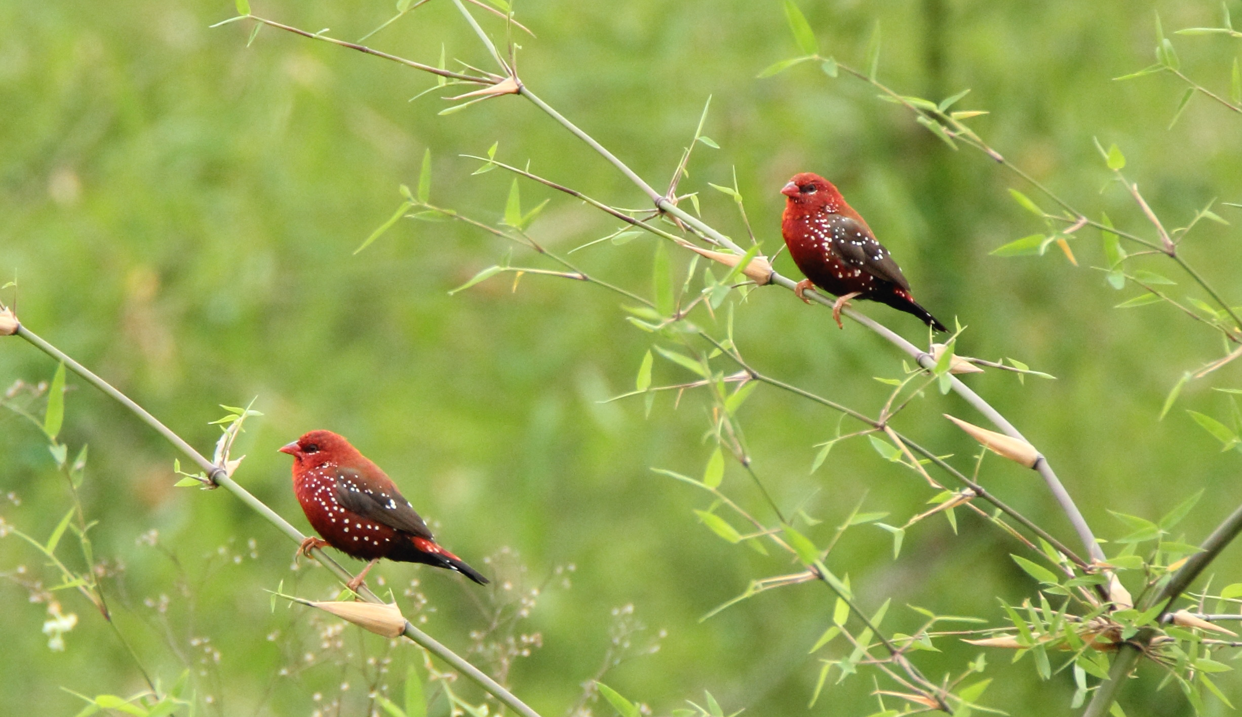 Red Avadavat Amandava amandava in grass clumps, Bangalore, India